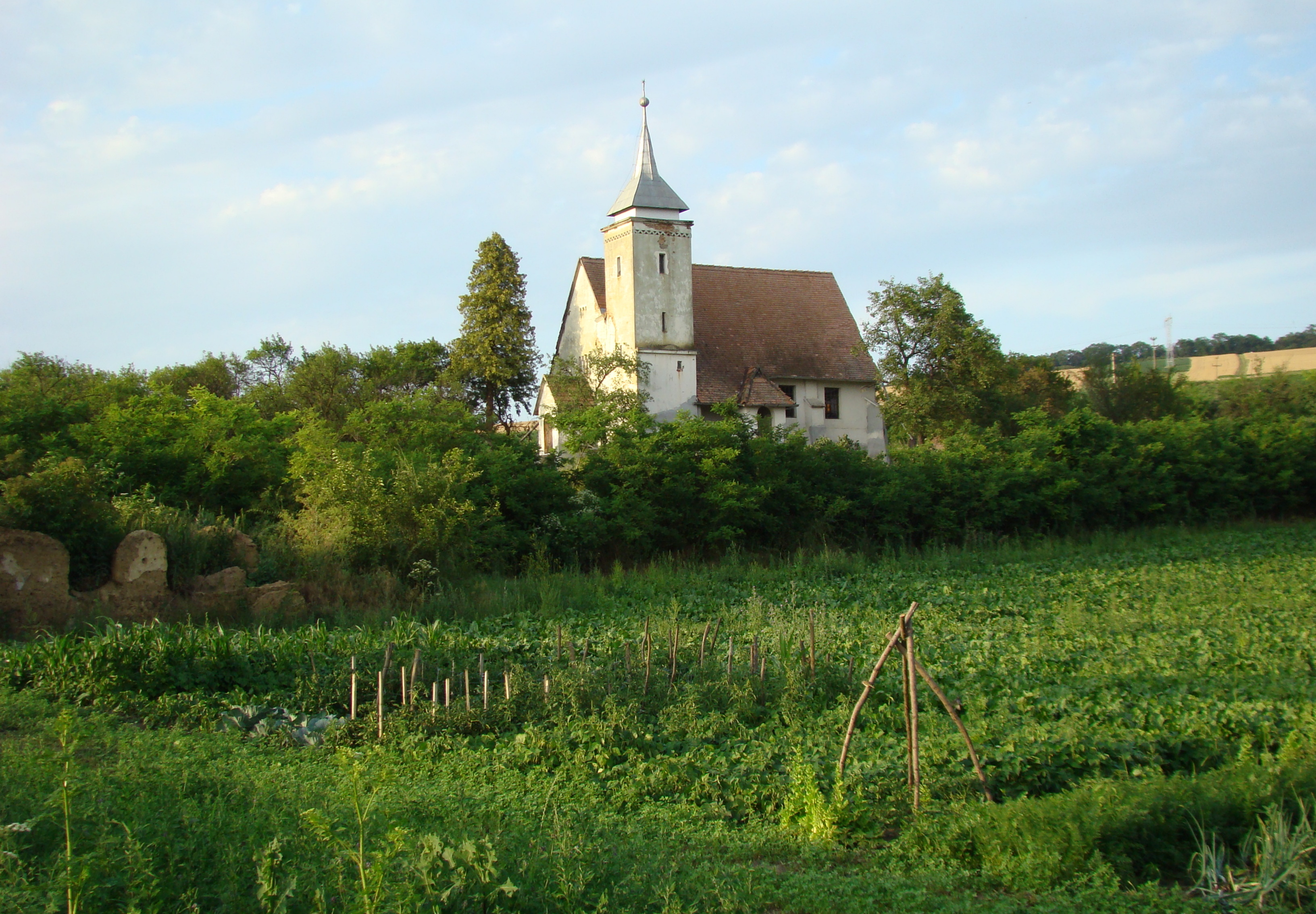 Reformed church in Sânger, Mureș county, RomaniaRomână: Biserica reformată din Sânger, județul Mureș